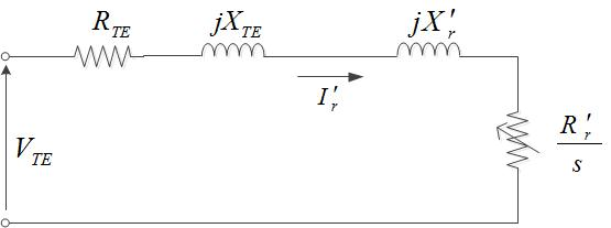 Induction motor Steinmetz circuit - Thévenin equivalent